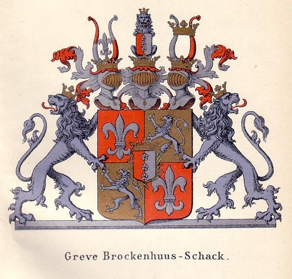 Coat of arms of the comital Brockenhuus-Schack family